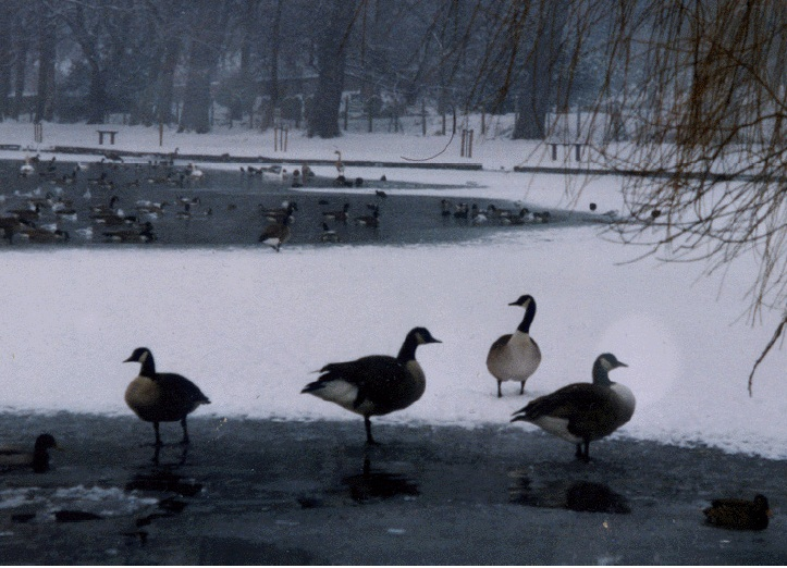 Handsworth Park taken by Simon Baddeley Sibadd 20:24, 5 March 2006 (UTC) probably Winter 1985